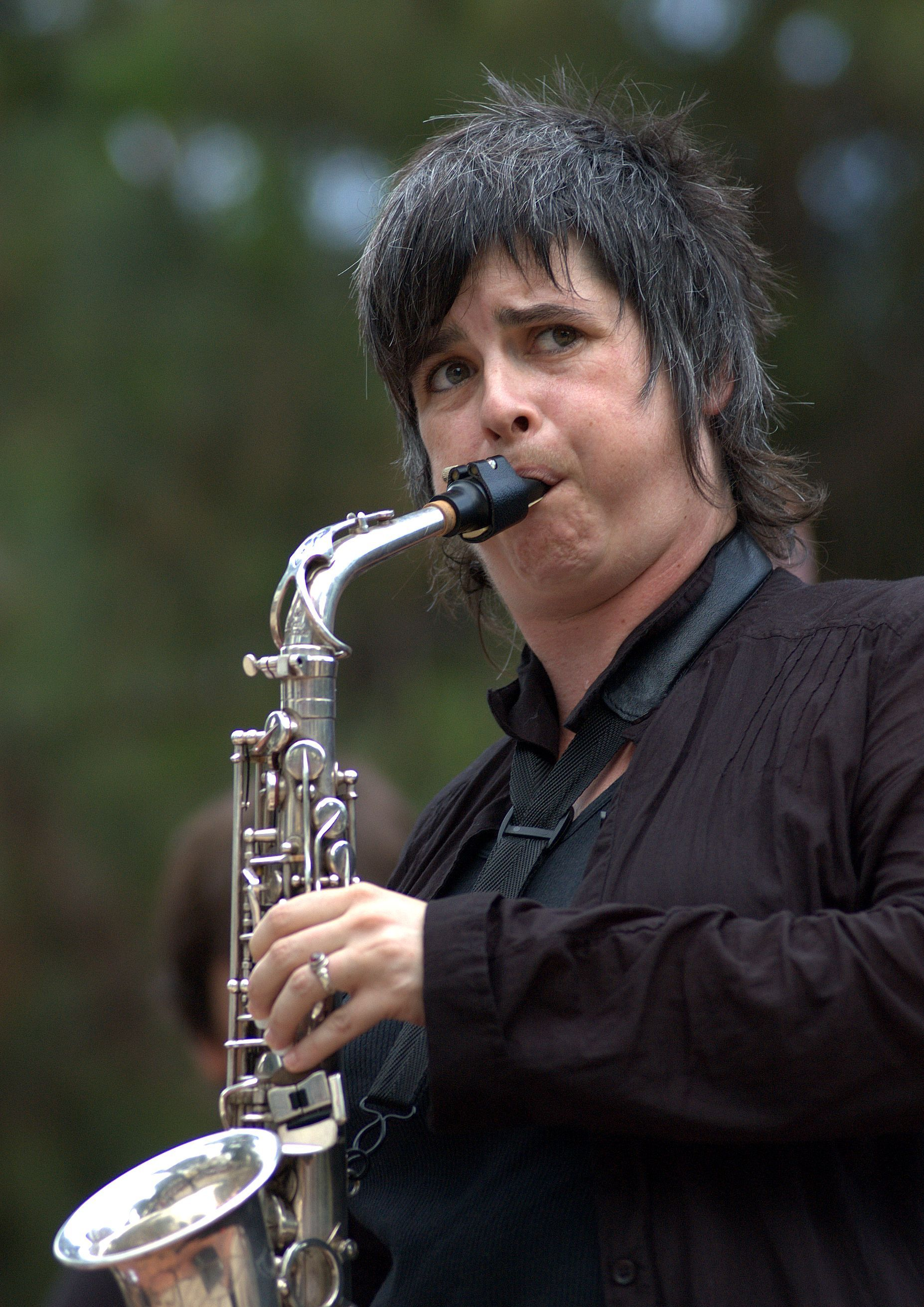 Outdoor portrait of Géraldine Laurent, french jazz saxo player, taken on 2006-07-21. She was guest of Philip Catherine Trio during the Jazz à Juan « Off » Festival (French Riviera).